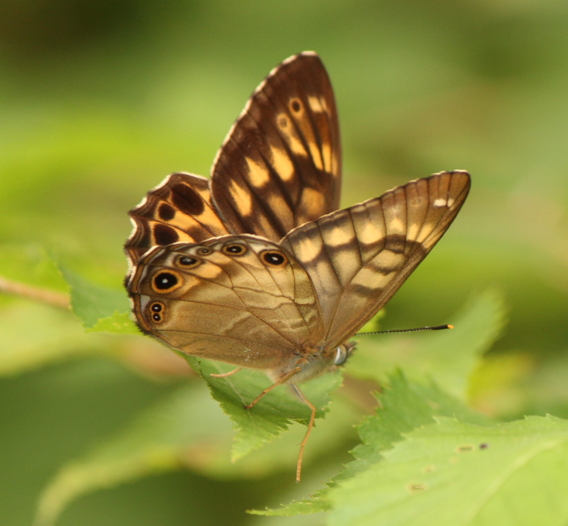 Zophoessa callipteris (A.G.Butler), in Mount Kisokoma, Nagano prefecture, Japan.